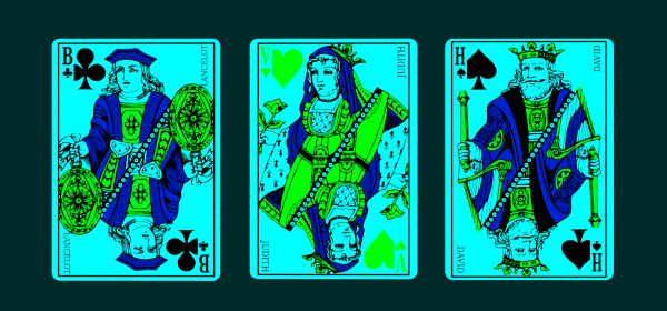 Anaglyph scene with playing cards. Right image.